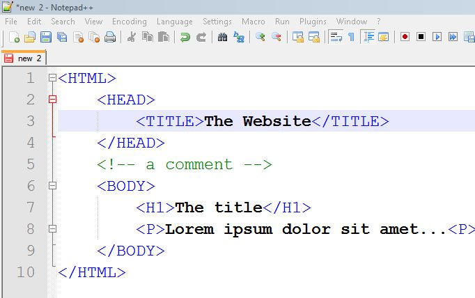 This is a screen capture from Notepad++ HTML editor.